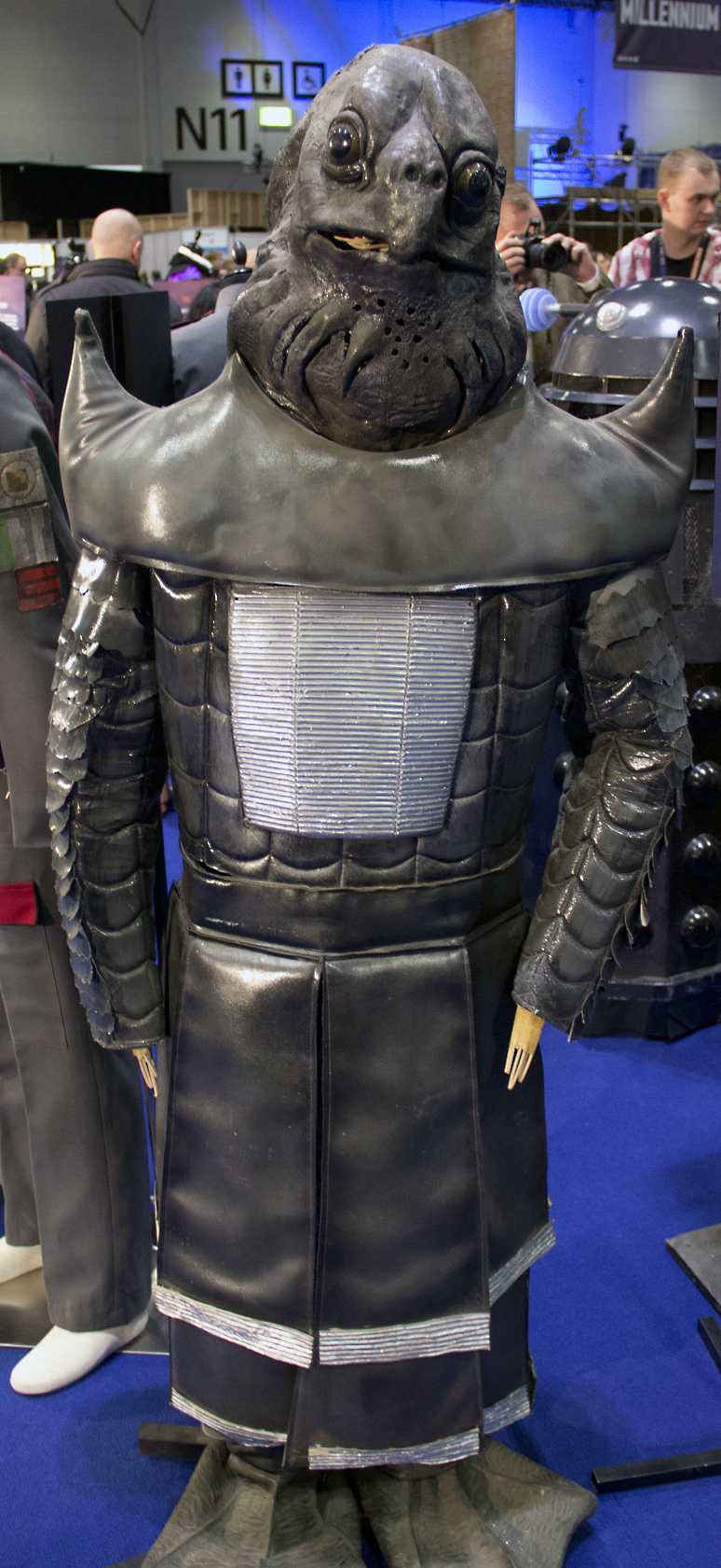 Doctor Who 50th Celebration Doctor Who Experience